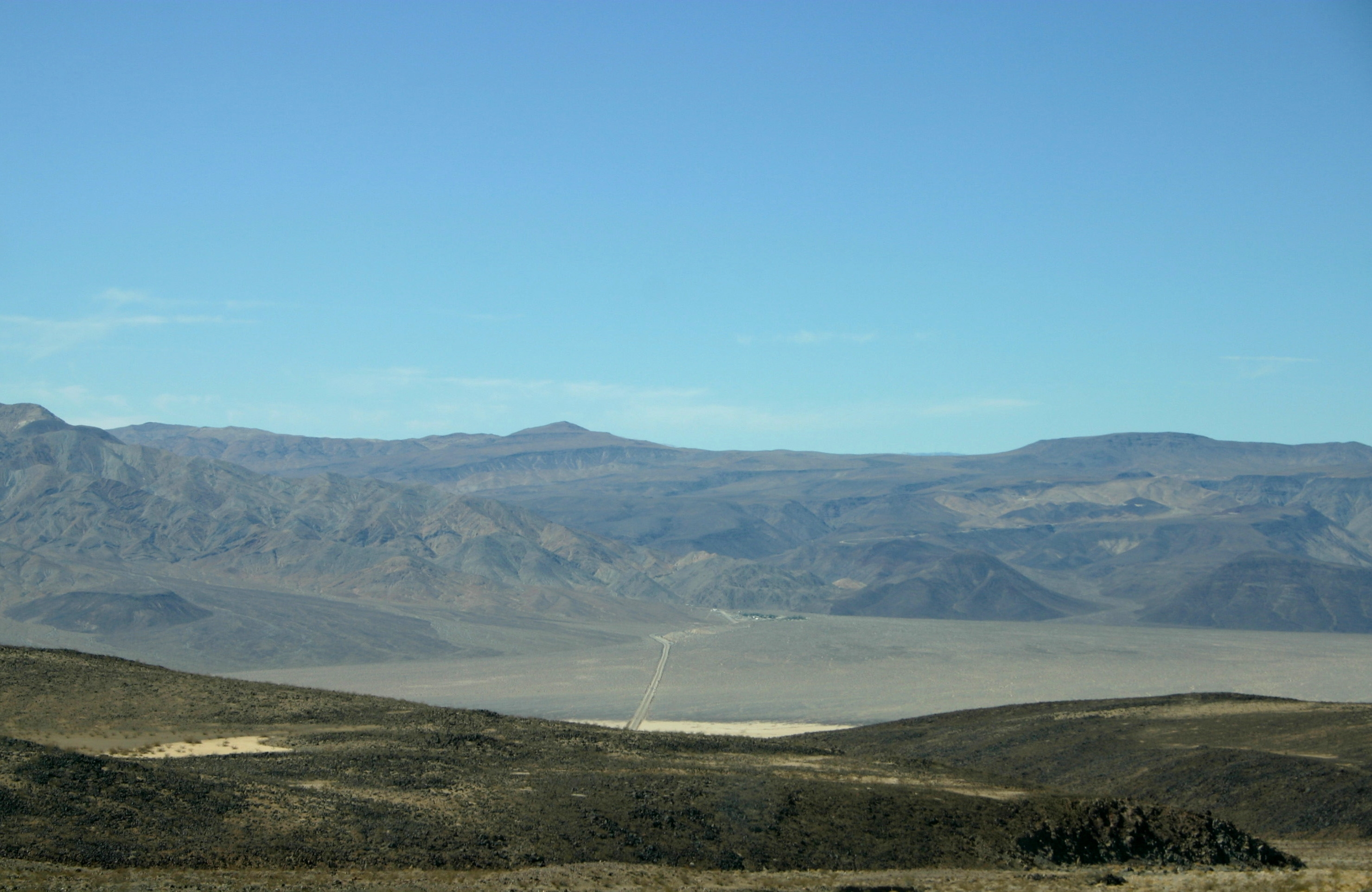 State Route 190 crosses Panamint Valley in eastern California